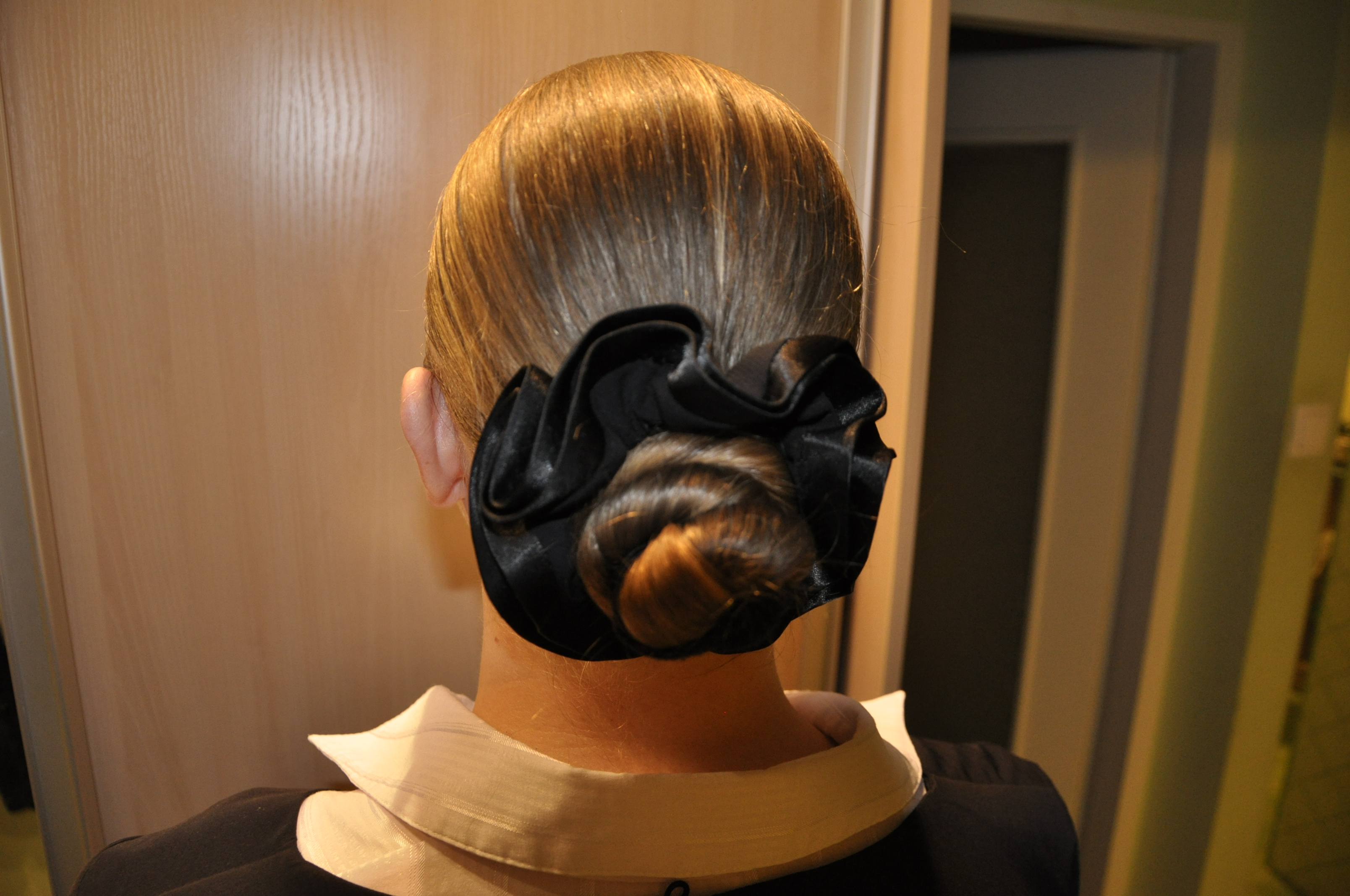 Women hair style - a bun.